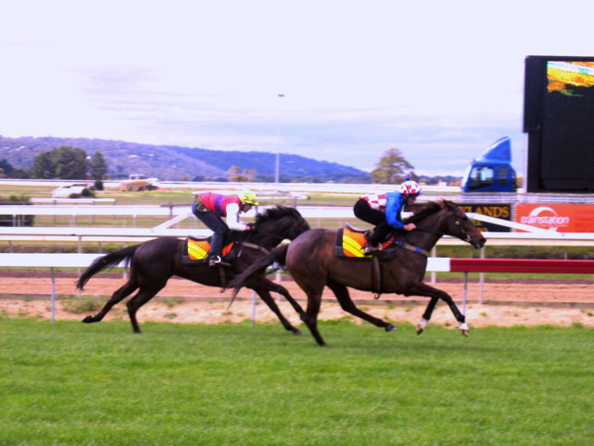 Makybe Diva - trackwork.